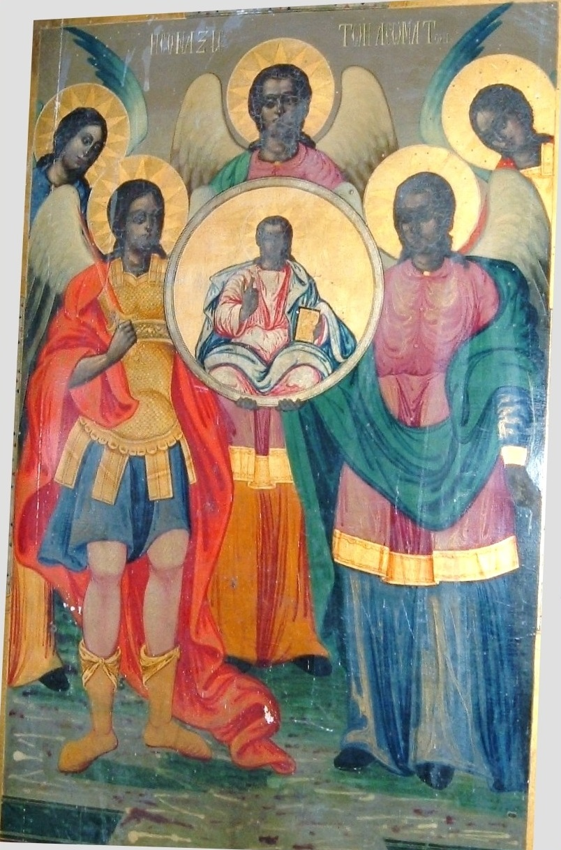 Assembly of the Bodiless Powers Icon from Saint John the Baptist Church in Apozari